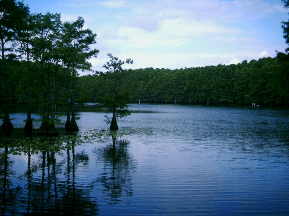 Caddo Lake with Bald Cypress trees — Caddo Lake State Park, Piney Woods region, Texas.